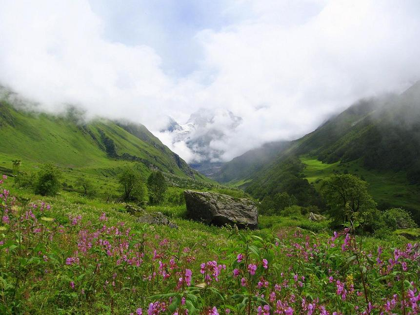 View of the Valley of Flowers, Uttaranchal, India.